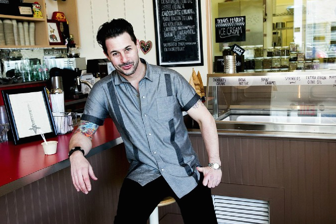 Johnny Iuzzini March, 2014